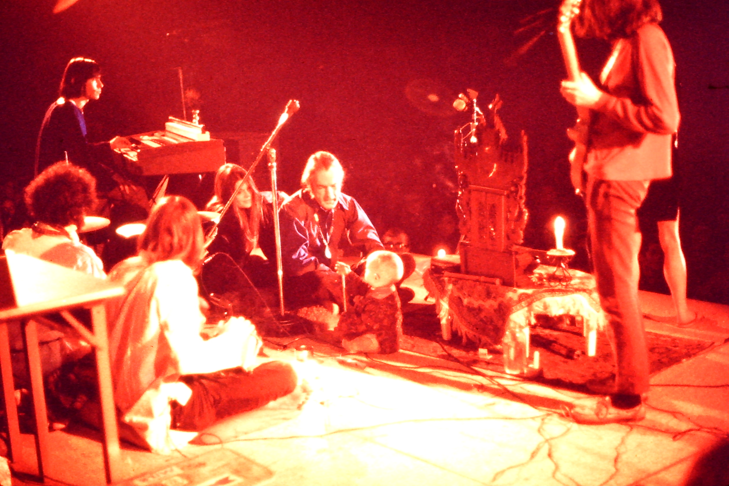 Timothy Leary, family and band on a lecture tour; State University of New York at Buffalo (1969) (Buffalo, New York). NOTE: If redistributing my work, please credit my work with my name, Dr. Dennis Bogdan, since I am the original author, and please be consistent with the Creative Commons Attribution-ShareAlike 3.0 Unported License and the GNU Free Documentation License agreements. Note: Image featured in University of New England (2015) article. (Drbogdan (talk) 20:37, 28 March 2017 (UTC))